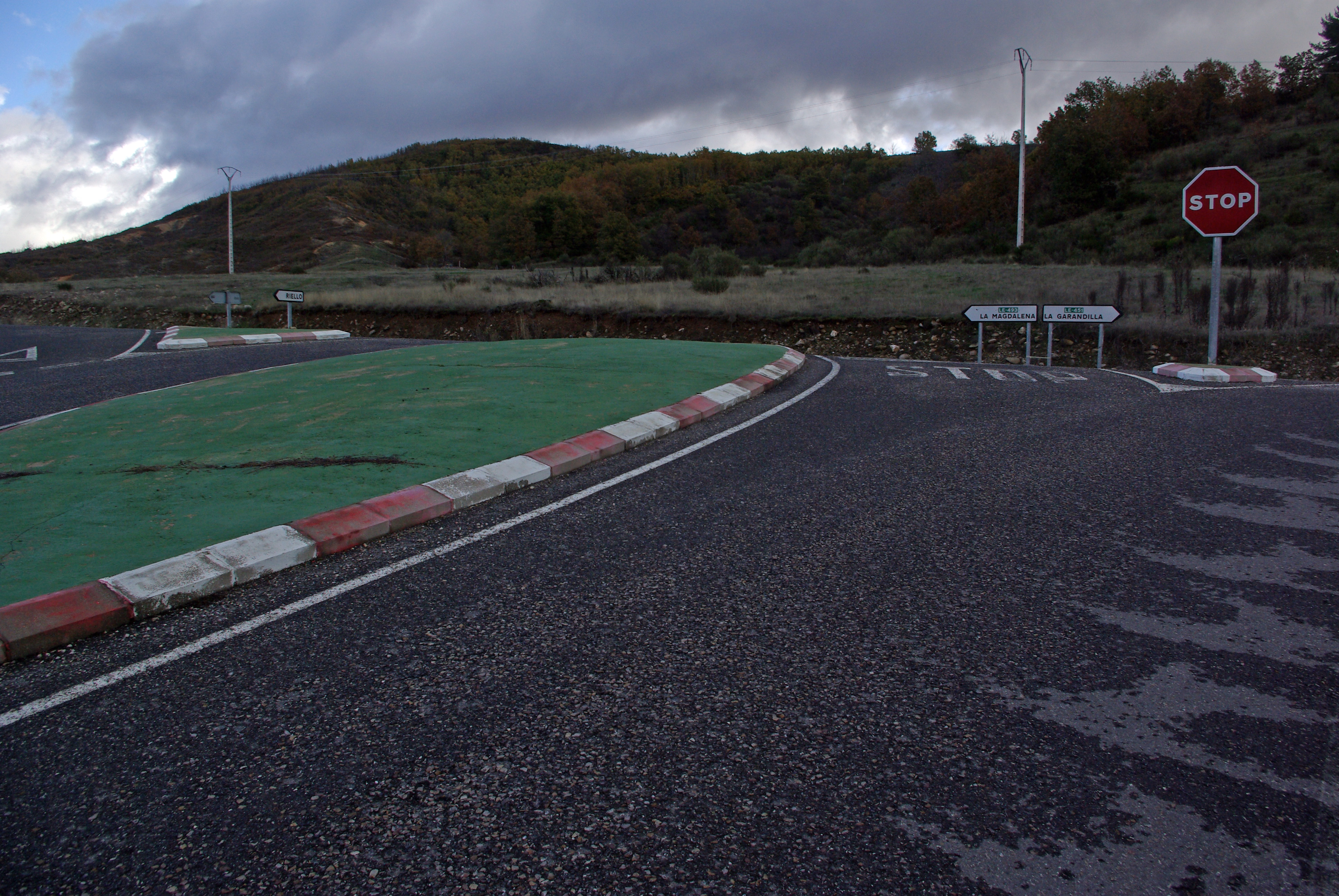 Road CV-128-19 junction Southern Riello (León, Spain).